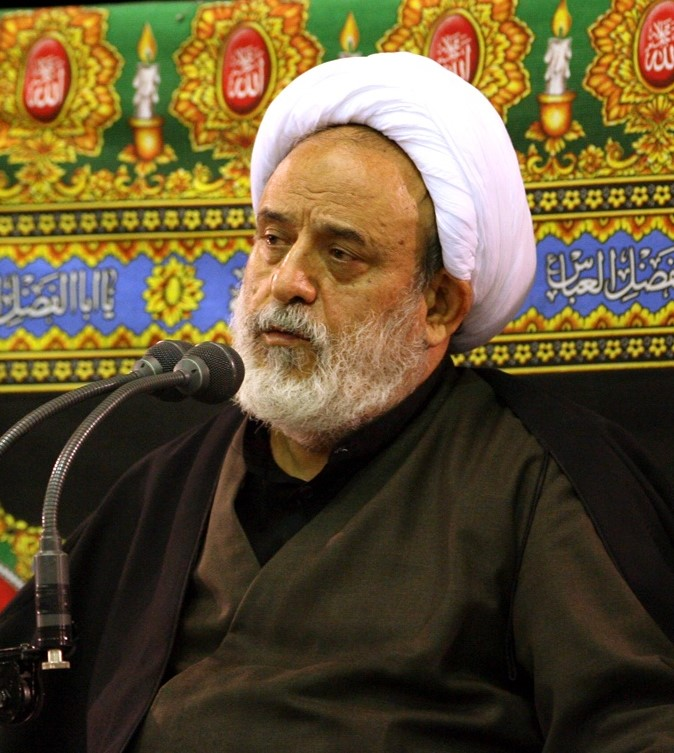 Hossein Ansarian and Ali Khamenei